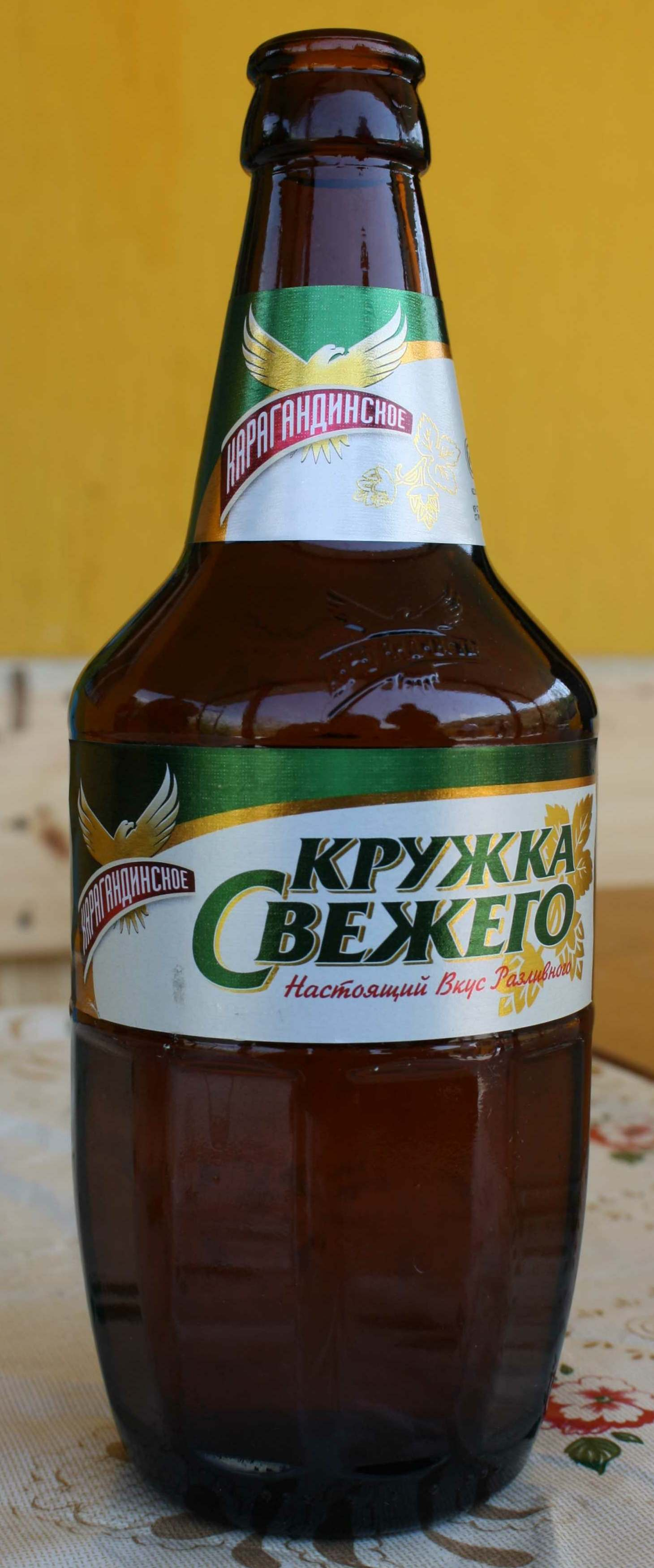 The bottle of "Kruzhka Svezhego" beer (Kazakhstan)